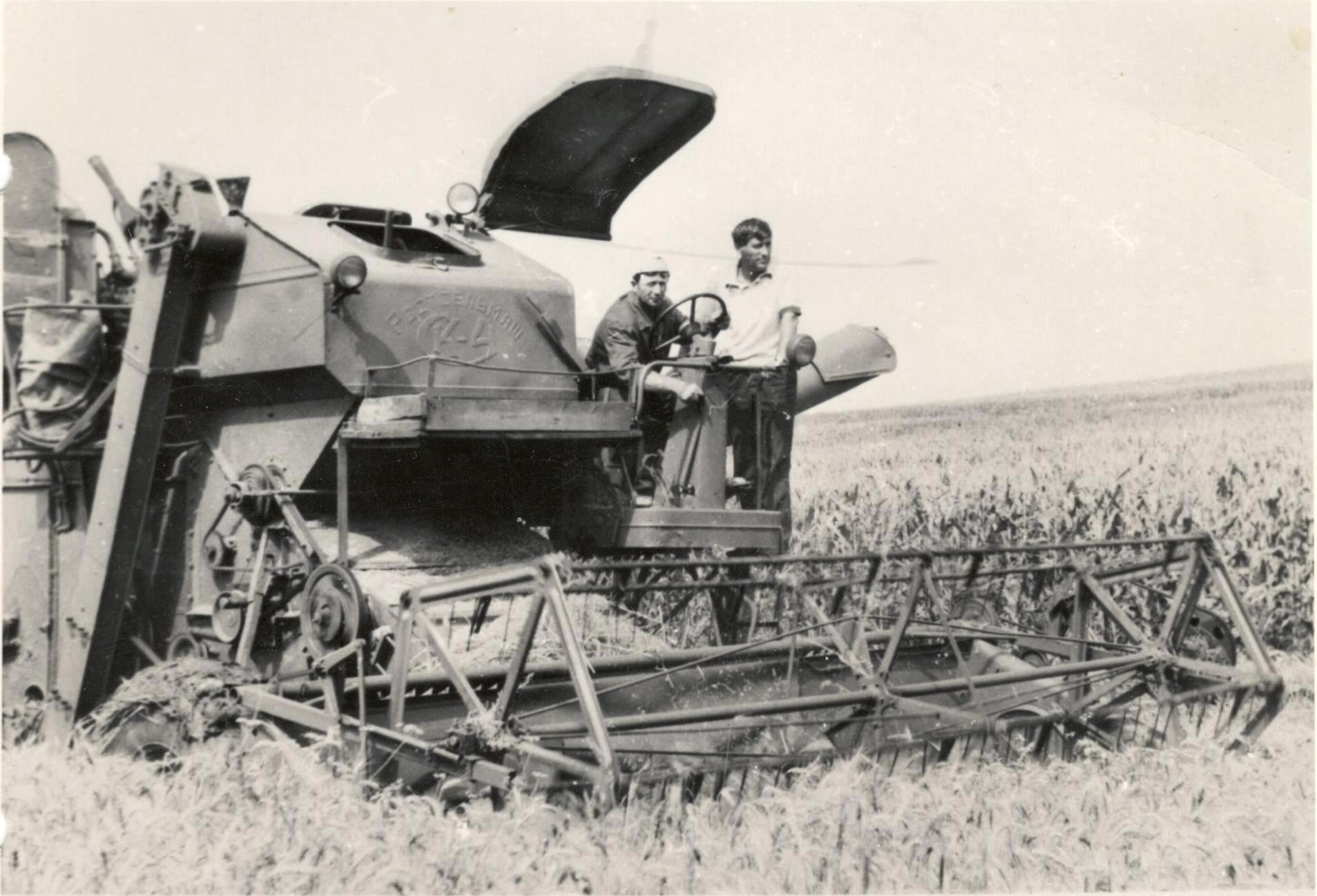 A champion harvester in 1975.